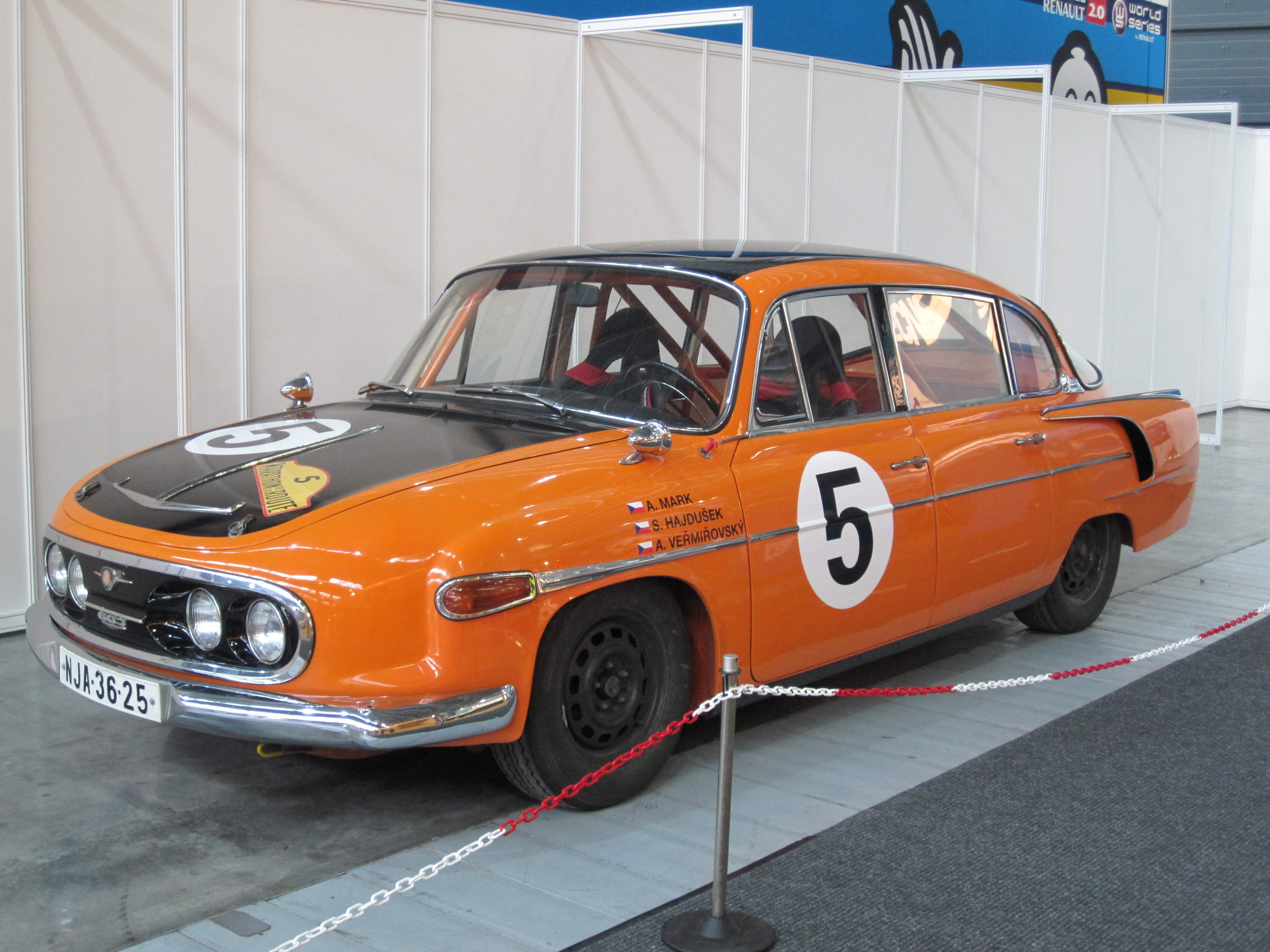 Some old Tatra vehicle at Brno Autotec 2010